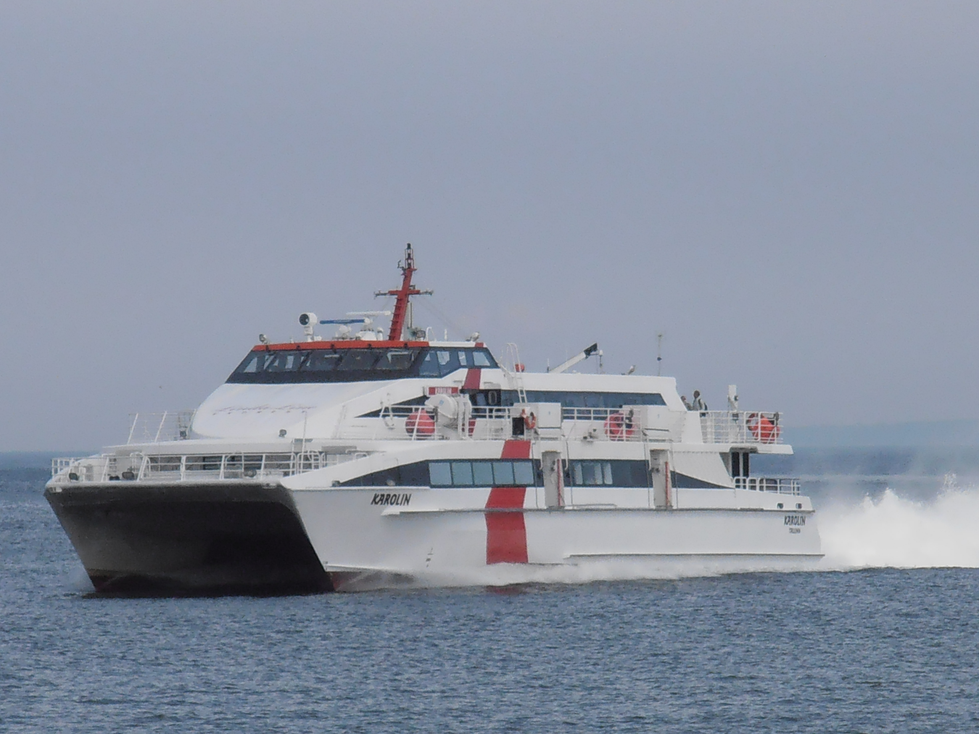 Karolin arriving in Tallinn 2 July 2012